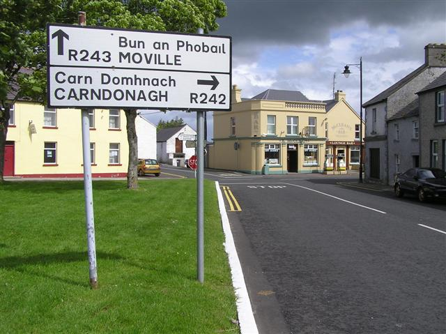 R242, Malin Heading east through the village